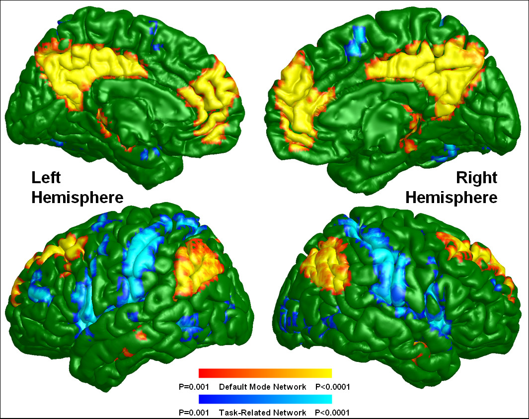 Default mode and task-related maps for healthy subjects. On a green background, the default mode network is highlighted in warm colors (red and yellow) and the task-related network is highlighted in cold colors (blue and light blue) depending on the p-value of one sample t-test.